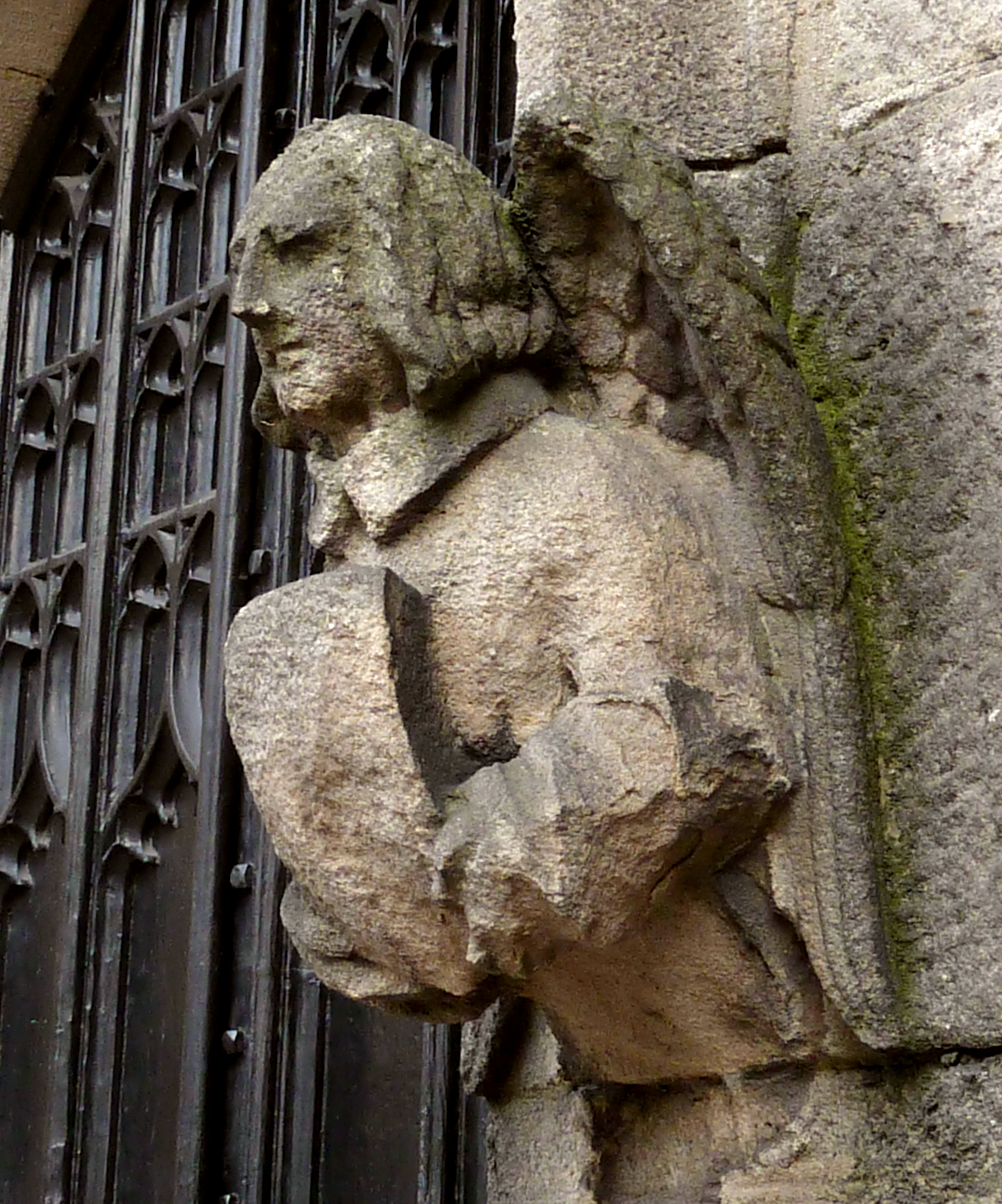 Mill Hill Unitarian Chapel, City Square, Leeds, West Yorkshire, England. Architects Bowman & Crowther of Manchester, opened 1848. All original architectural carving is by Robert Mawer. Showing winged man on east porch. This appears to be a portrait of an individual.